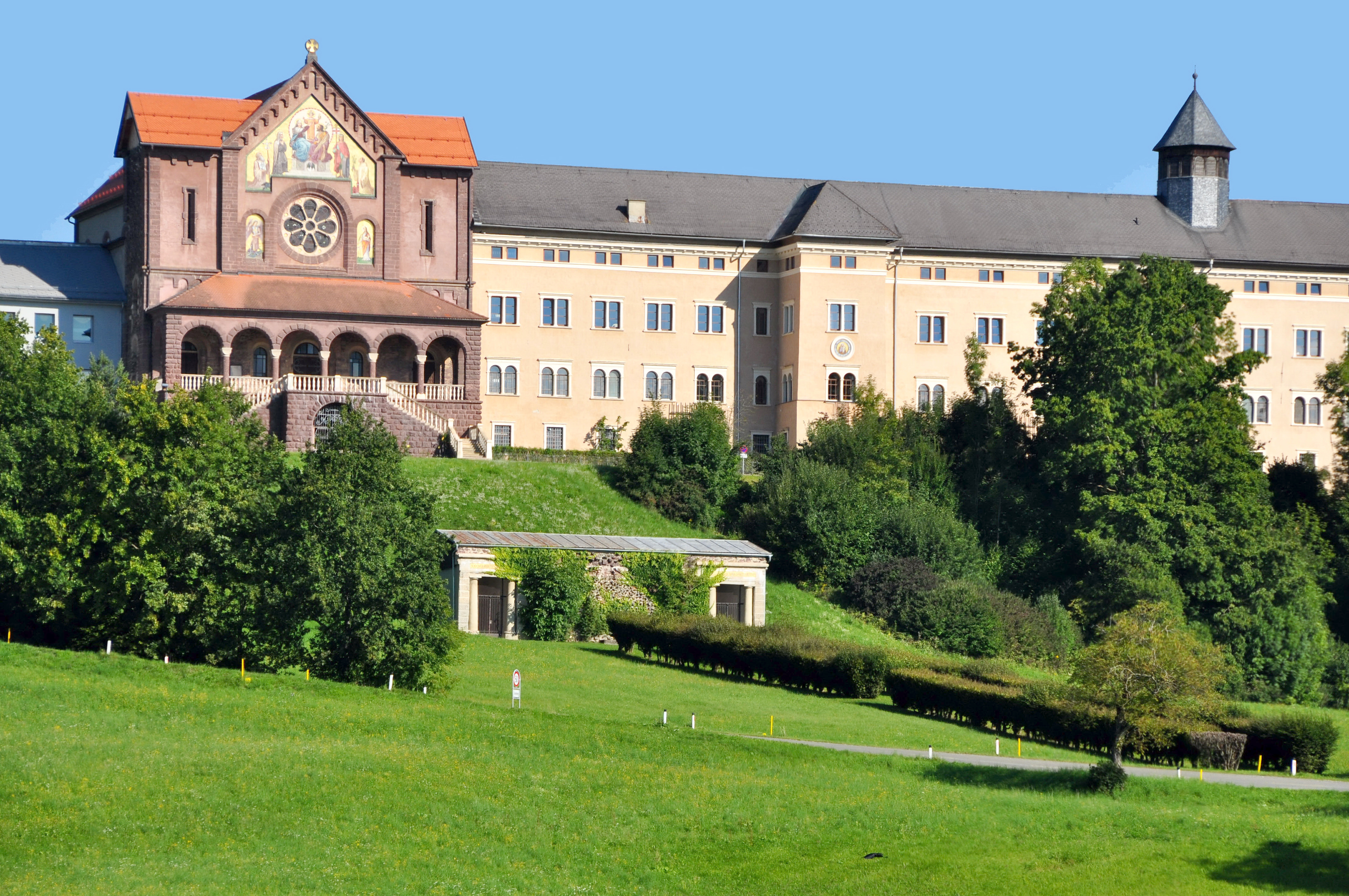 East view at castle Tanzenberg, municipality Sankt Veit an der Glan, district Sankt Veit an der Glan, Carinthia, Austria, EU